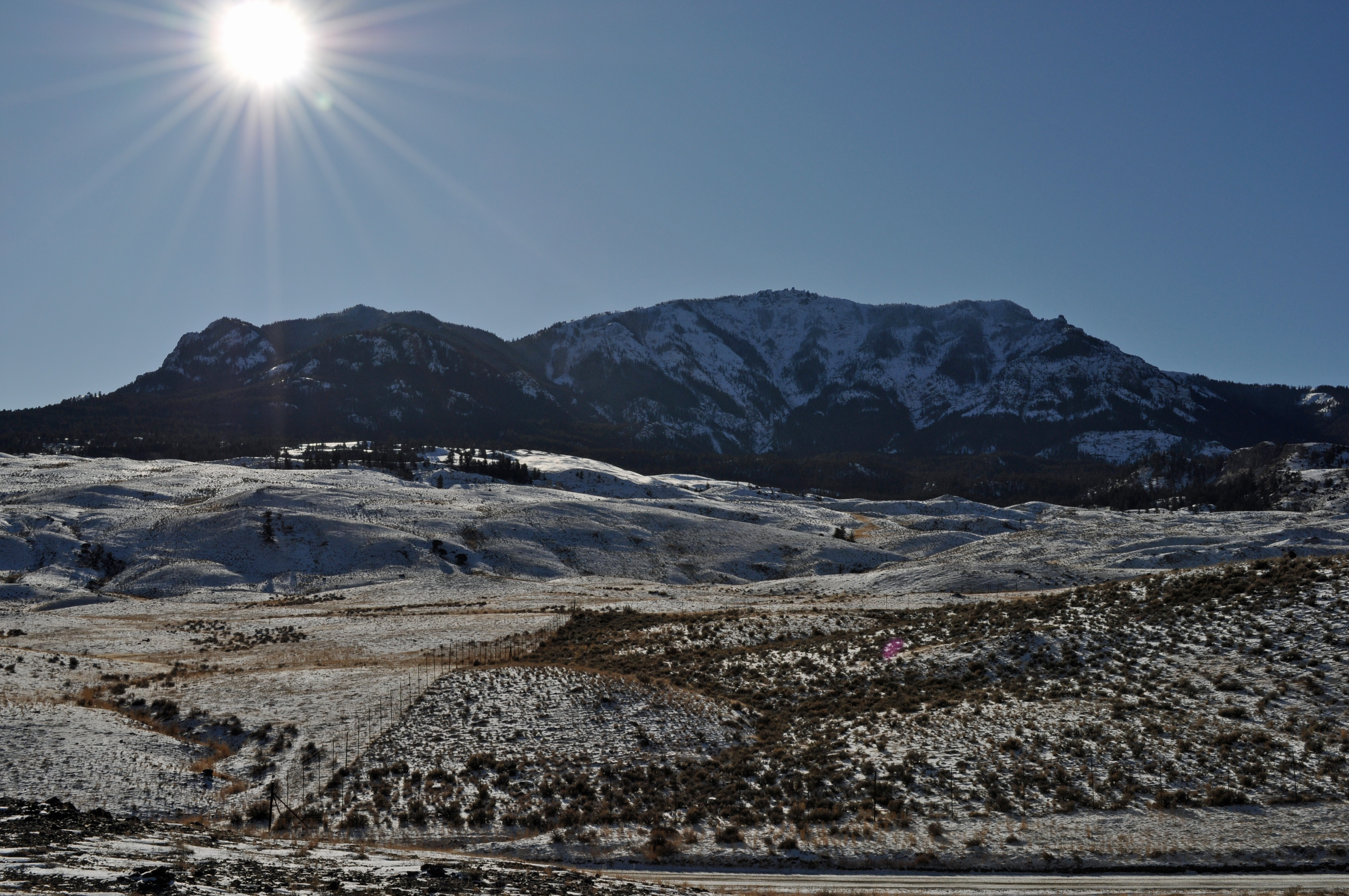 Sepulcher Mountain from Gardiner, Montana, Yellowstone National Park, December 2009